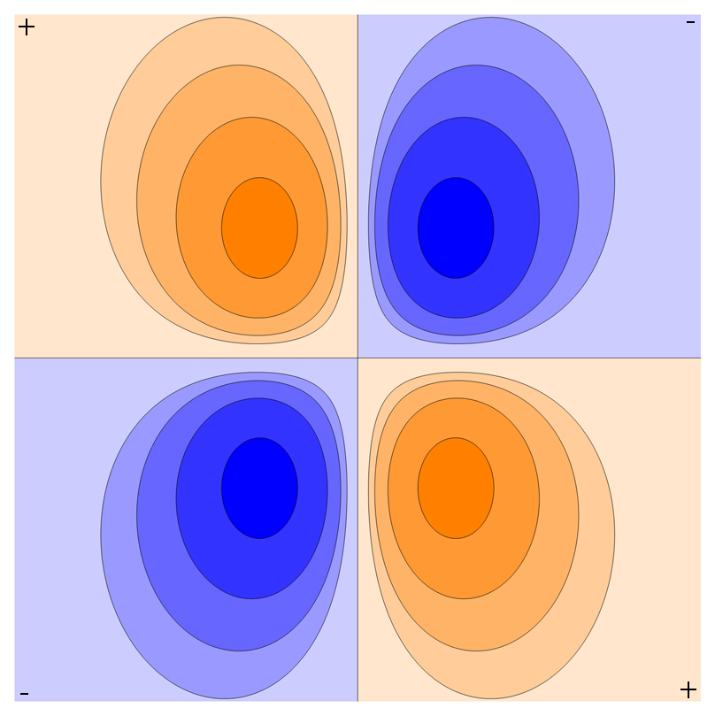 Contour plot of the equipotential surfaces of an electric quadrupole field. Caution: The image is stretched and therefore unphysical.